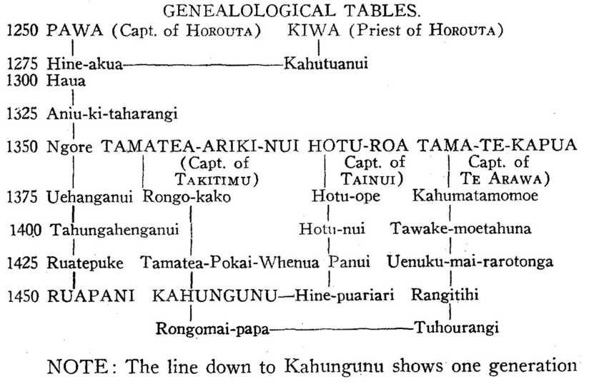 Whakapapa of Ruapani